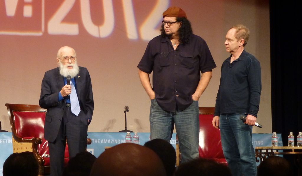 Penn & Teller on stage with James Randi at The Amazing Meeting 2012 (TAM-2012) during the Saturday Keynote Presentation: "Penn & Teller - 38 Years of Magic & BS".